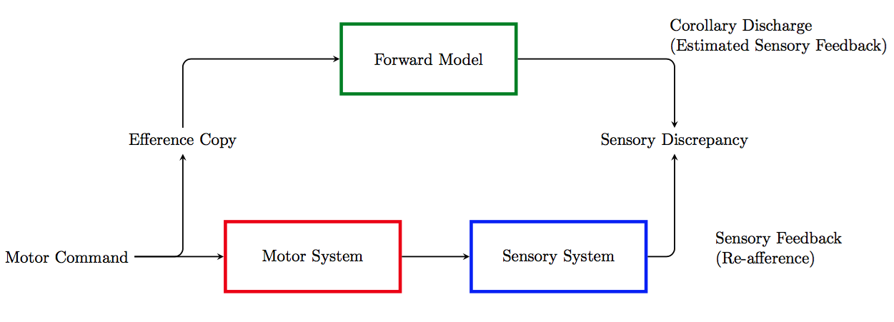 This image is a reproduction of a diagram originating on and has undergone no significant changes, serving only to improve its quality as the original file is 7 years old. Original work refers back to Michelle Costanzo, as seen in Theory of Motor Control UMD Spring 2008.